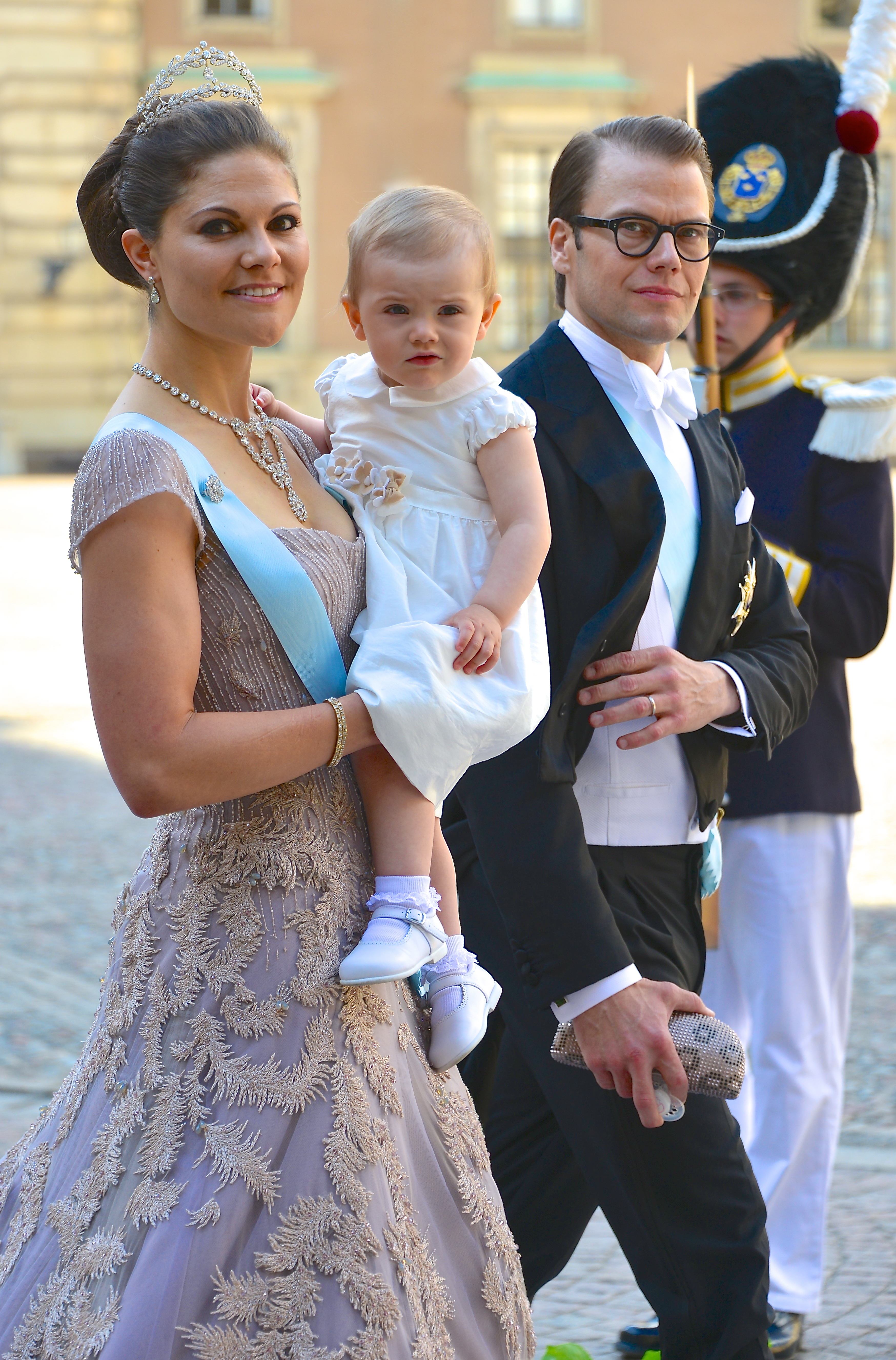 Crown Princess Victoria, Princess Estelle and Prince Daniel on the way to the castle church at the Royal Palace in Stockholm for the wedding between Princess Madeleine and Christopher O'Neill, June 8, 2013.